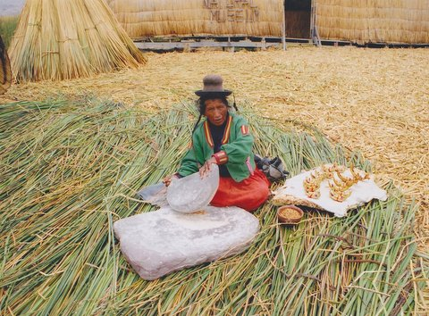 Uros Indian woman who works with a grind and small Wicker toy boats sells to tourists